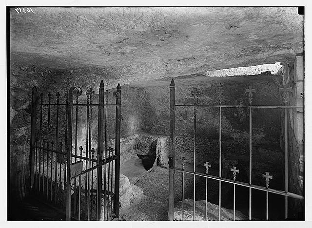 Tomb of Christ in the Garden.